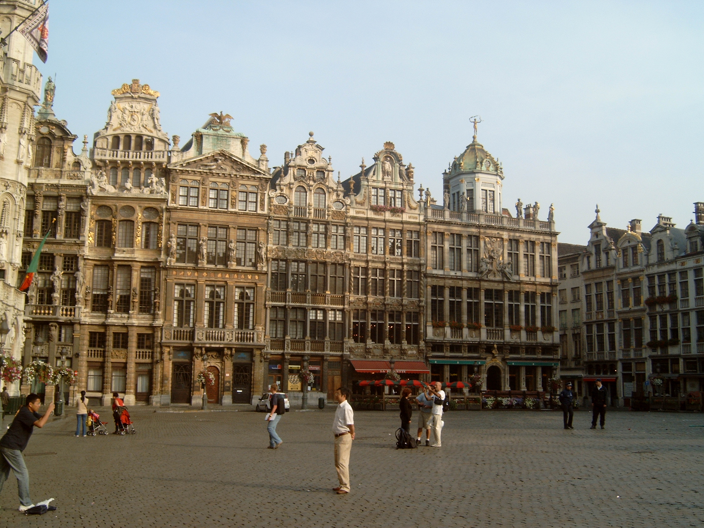 Brussels, Grand Place